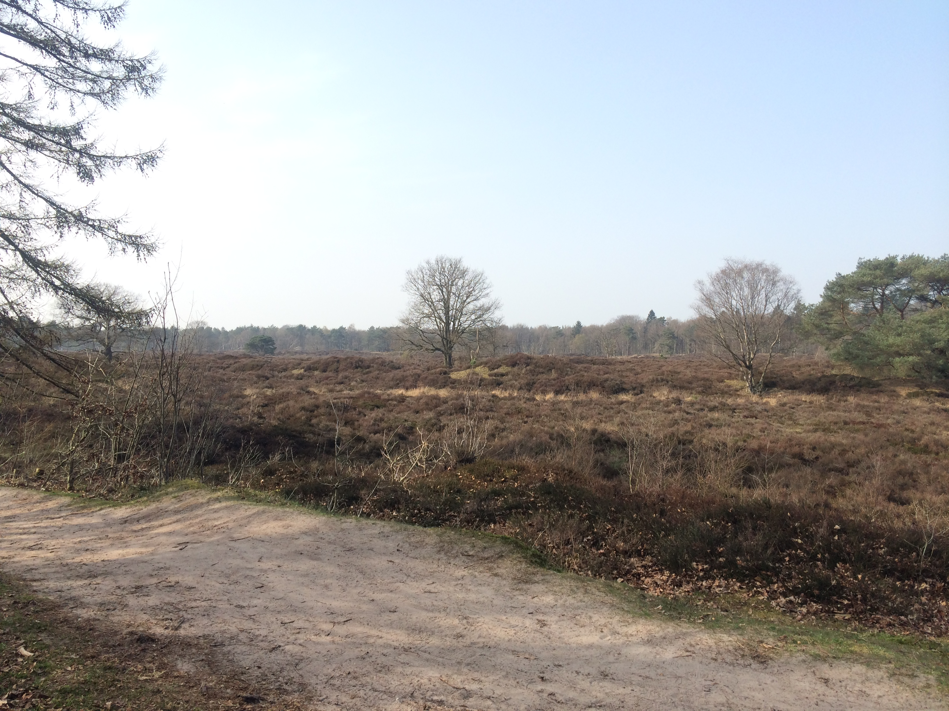 Bakkeveense Duinen in maart 2014.